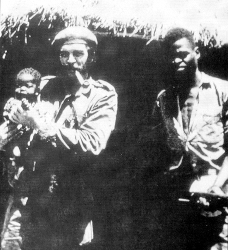 Ernesto Che Guevara in the Congo.